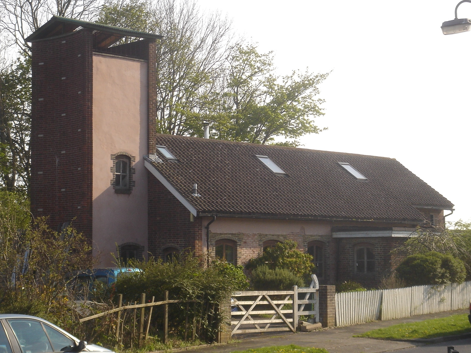 A former meetinghouse of The Church of Jesus Christ of Latter-day Saints, Park Close, Coldean, City of Brighton and Hove, England. The congregation has moved to a newer building on the Vogue Gyratory on Lewes Road, Brighton.